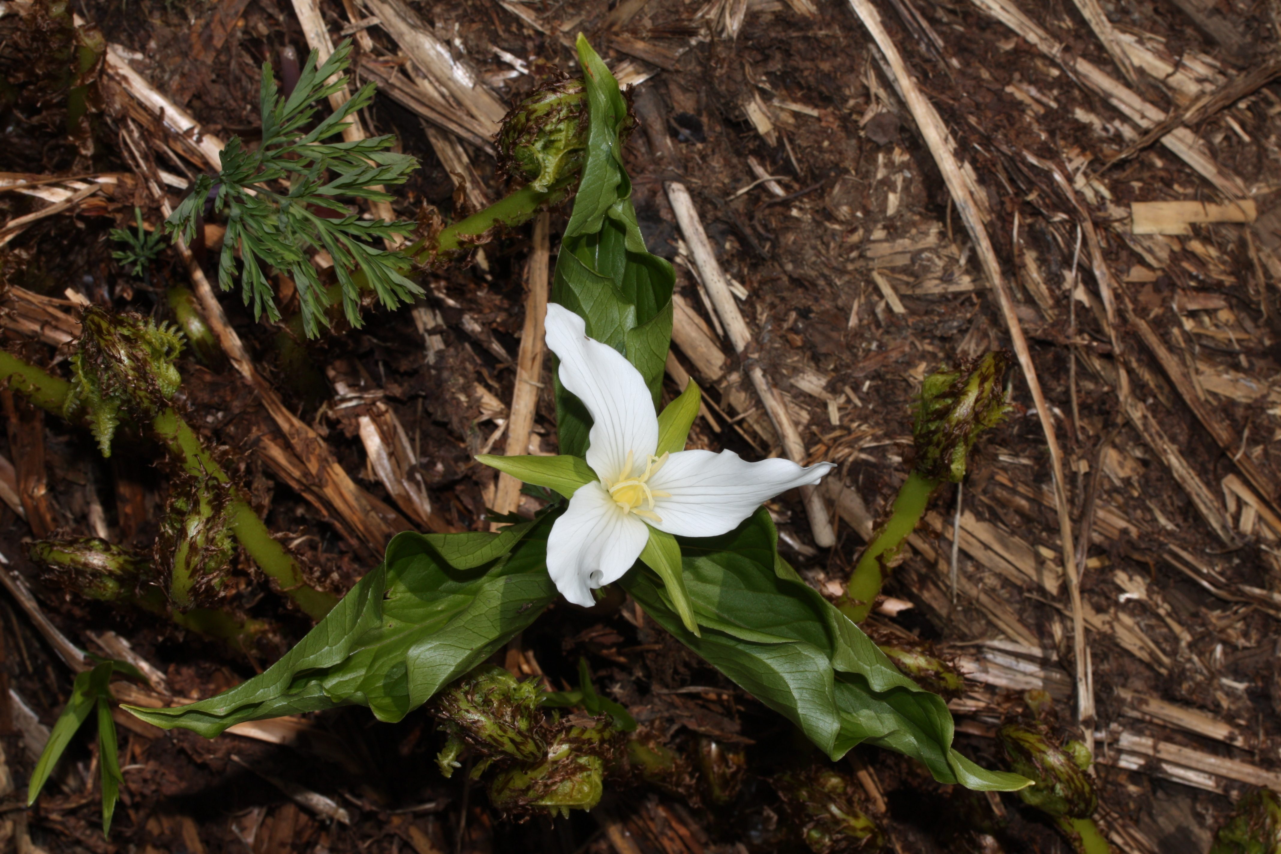 Pacific Trillium, Wakerobin